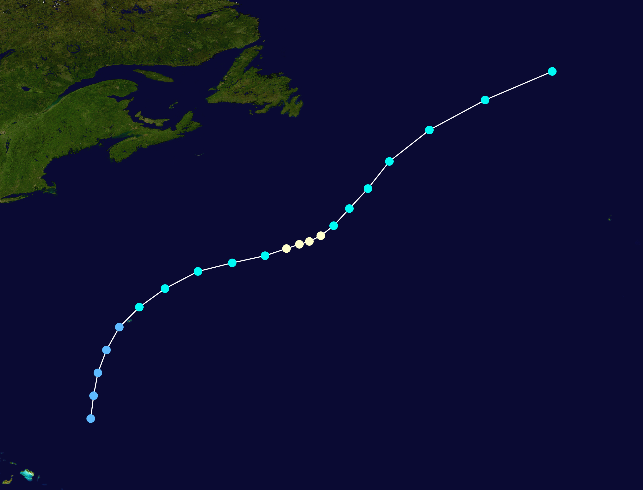 Track map of Hurricane Four of the 1963 Atlantic hurricane season. The points show the location of the storm at 6-hour intervals. The colour represents the storm's maximum sustained wind speeds as classified in the Saffir–Simpson scale (see below), and the shape of the data points represent the nature of the storm, according to the legend below. Saffir–Simpson scale Tropical depression≤38 mph≤62 km/h Category 3111–129 mph178–208 km/h Tropical storm39–73 mph63–118 km/h Category 4130–156 mph209–251 km/h Category 174–95 mph119–153 km/h Category 5≥157 mph≥252 km/h Category 296–110 mph154–177 km/h Unknown Storm type Tropical cyclone Subtropical cyclone Extratropical cyclone / Remnant low / Tropical disturbance / Monsoon depression